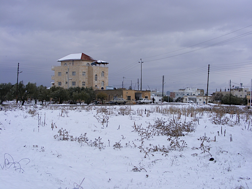 Snows of Huwwarah